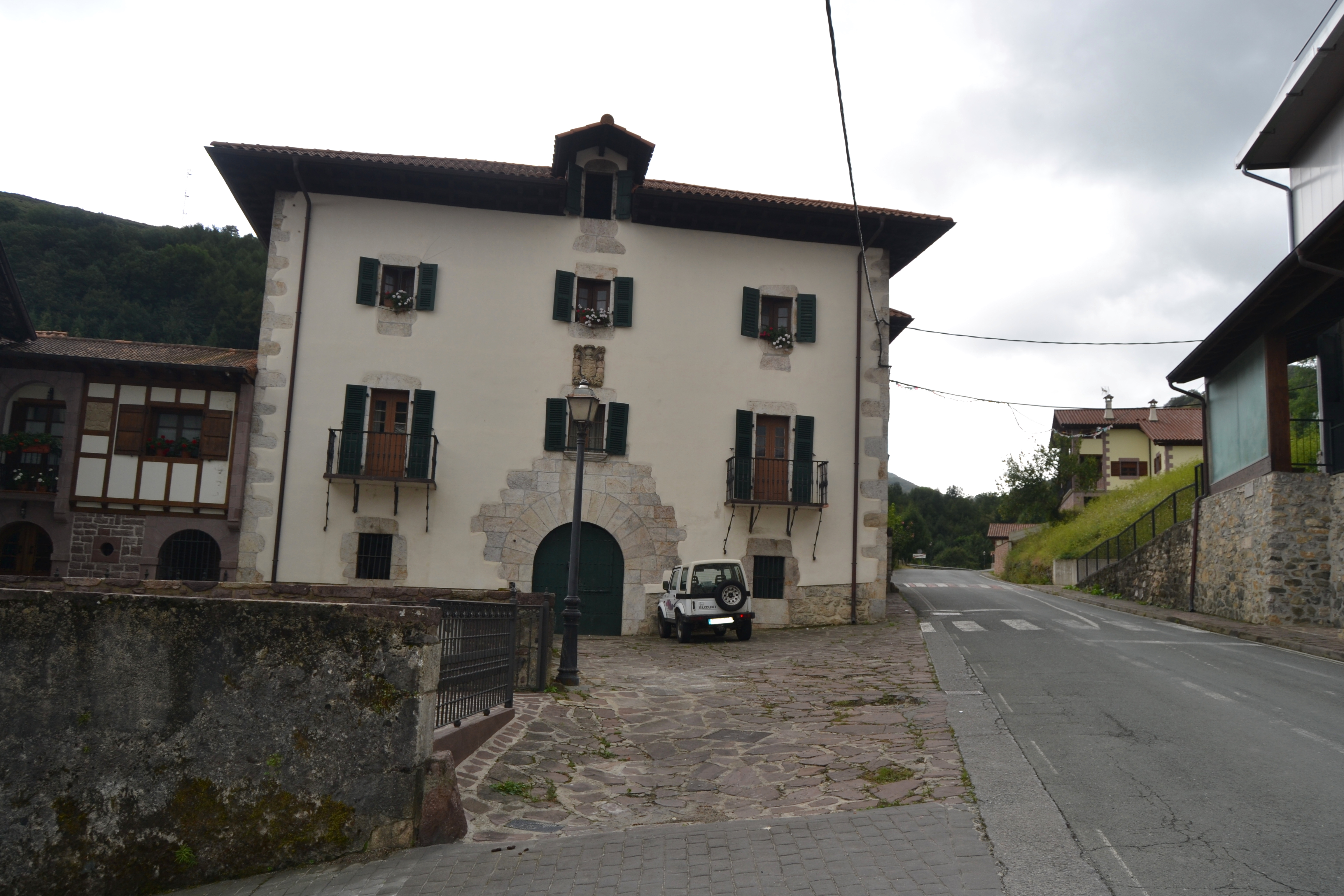 Jauregia house, Almadoz, Baztan, Navarre, Basque Country.